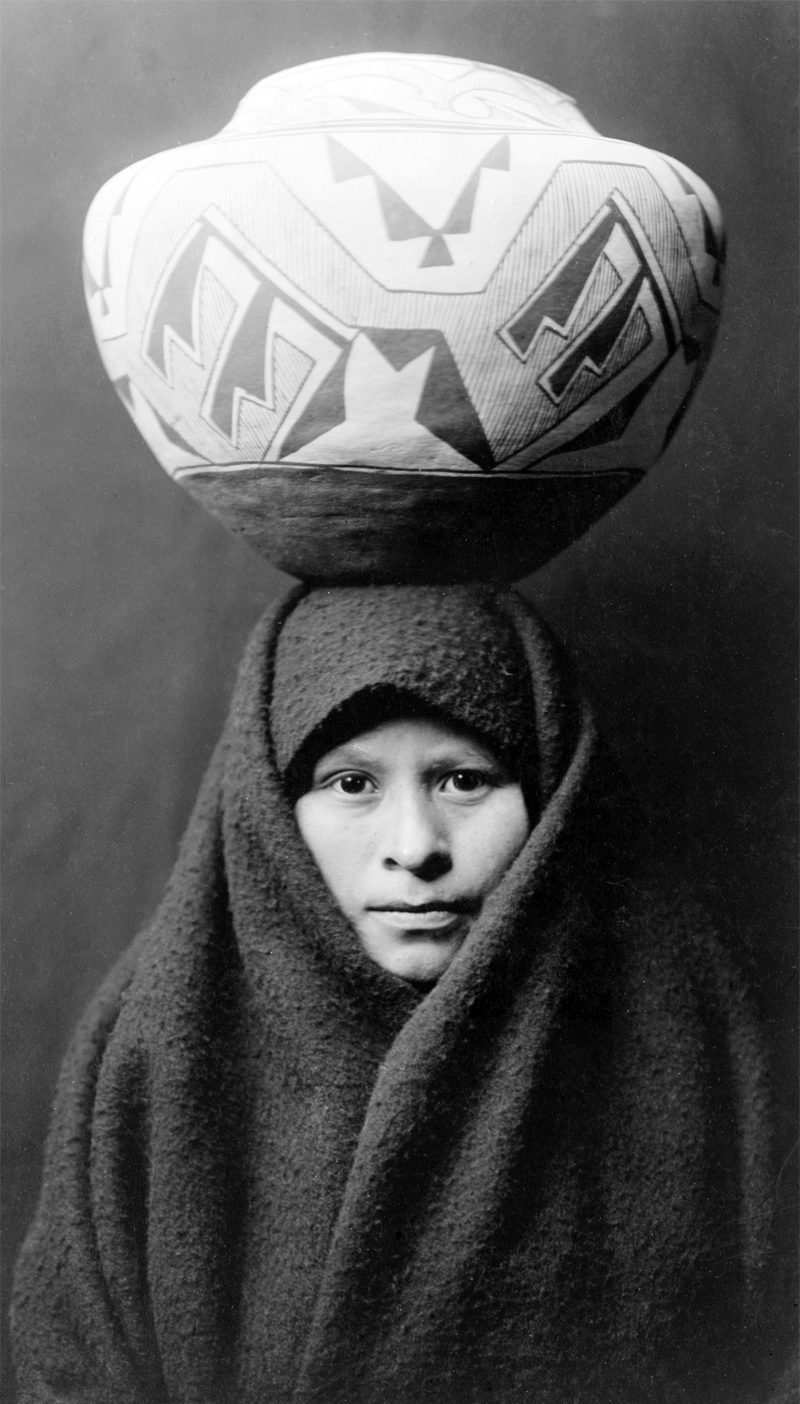 "Zuni girl with jar" (c.1903). A girl of the Zuni tribe, headcarrying a Native American pottery jar, in New Mexico. Head-and-shoulders portrait, from The North American Indian, by Edward S. Curtis.